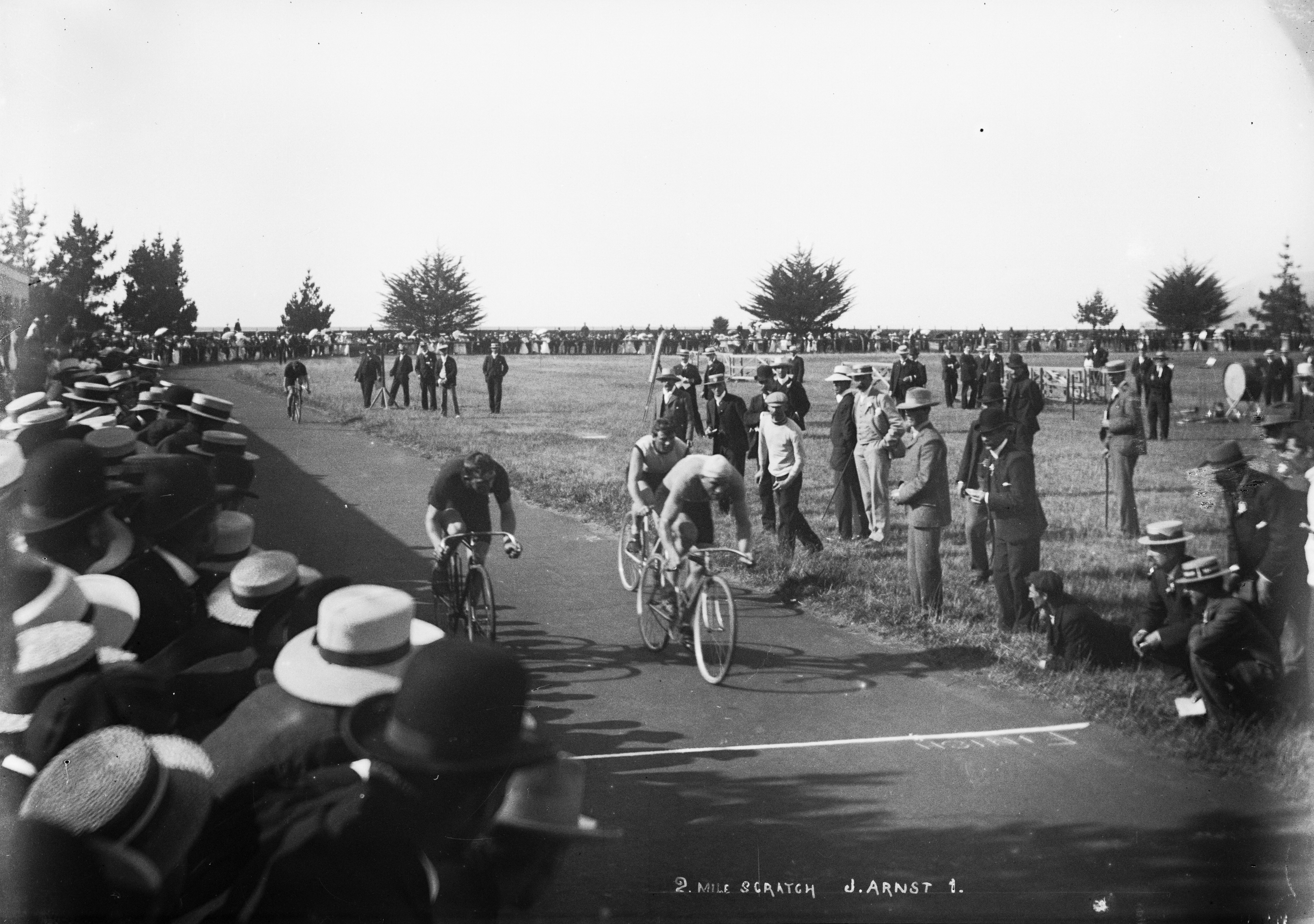 Jacob Diedrich (Richard) Arnst leading a group of cyclists to the finish line in a two mile scratch race, probably in the Nelson region. Photographed ca 1910 by Frederick Nelson Jones.